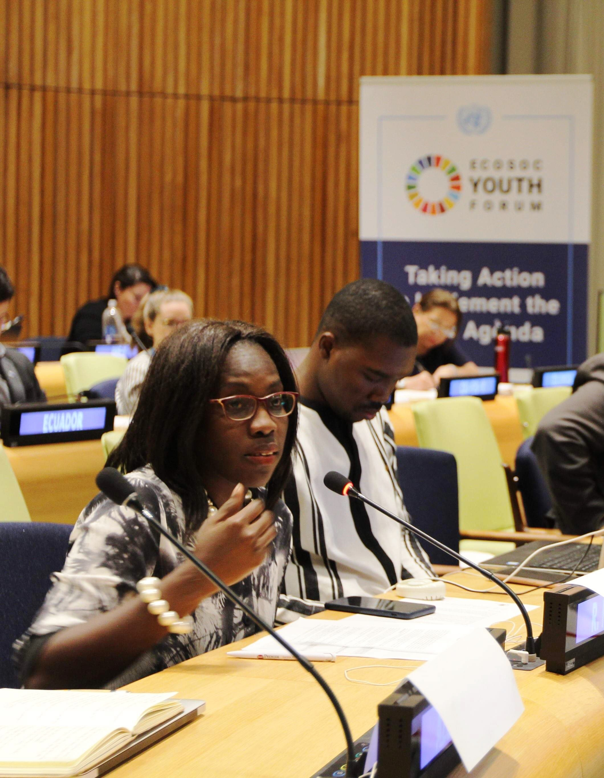 Maria Auma at the ECOSOC Youth Forum giving feedback of online survey at the SDG13 breakout session.